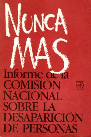 "Never More: Final Report by the National Comission about the Disappearance of Persons", published by Eudeba.